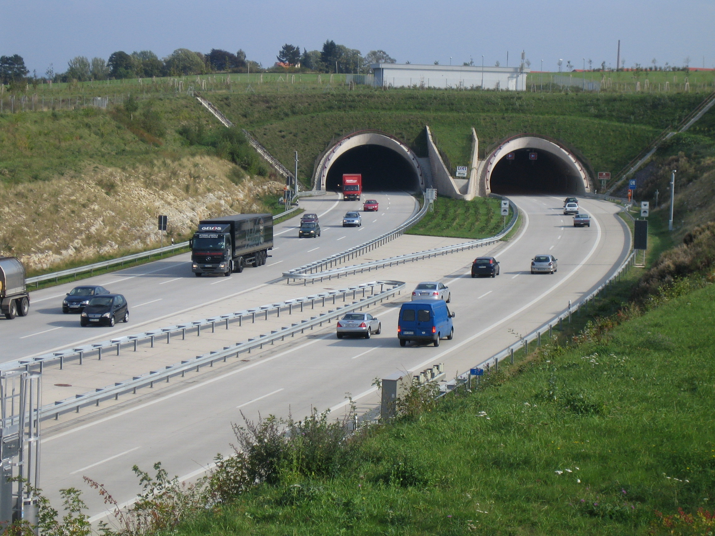 Dölzschen Tunnel of the german Autobahn 17, entrance Roßthal/Pesterwitz